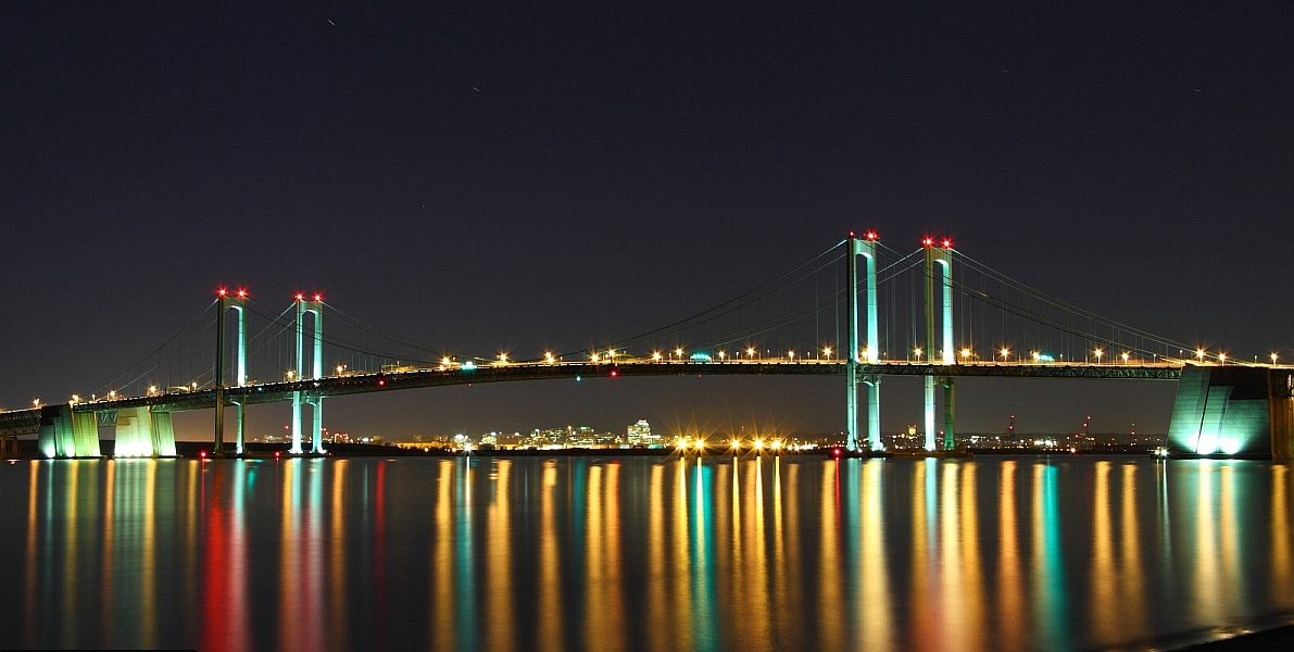 Shot of the Delaware Memorial Bridge at night.